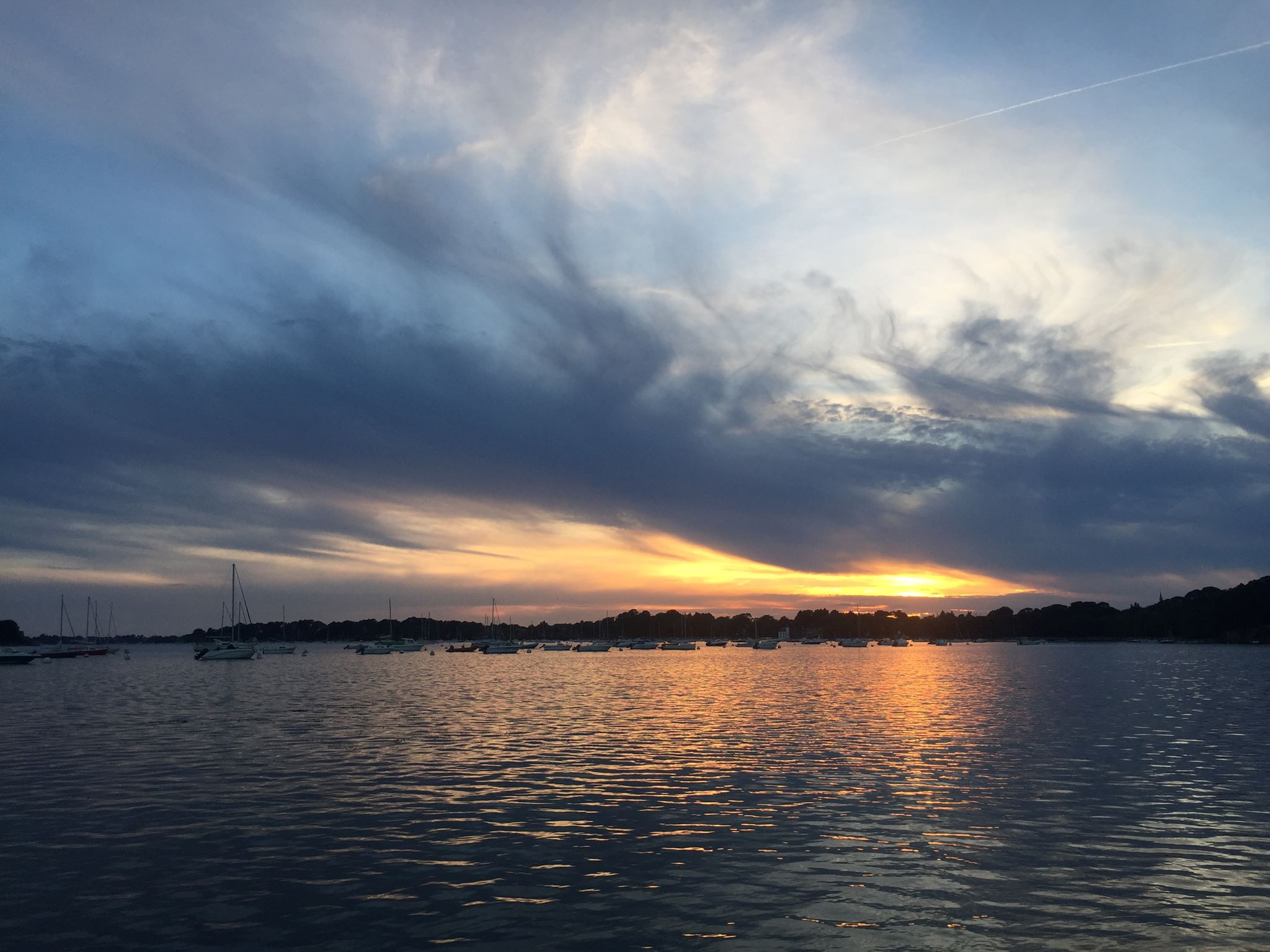 Arradon, Gulf of Morbihan at sunset, Bretagne, France